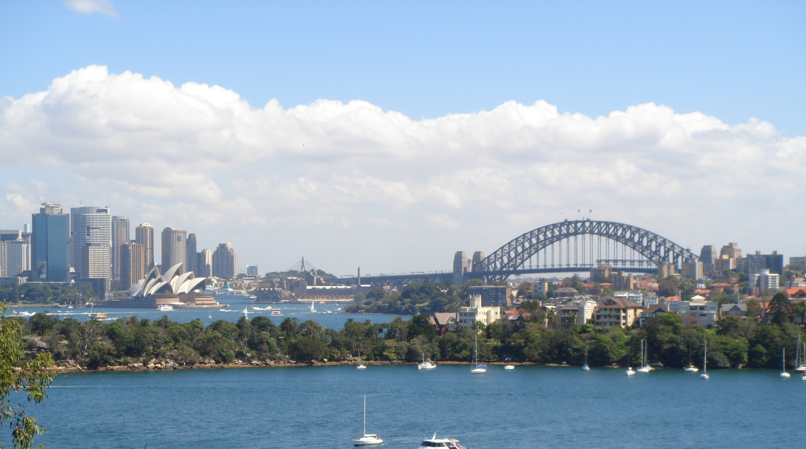 View of Sydney Harbour from Taronga Zoo with Sydney Harbour Bridge on right and Sydney Opera House on the left